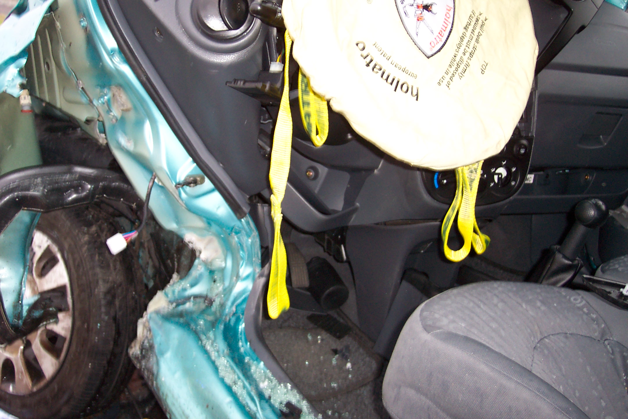 Car after collision, steeringwheel covered bij protective cover to prevent airbag from deploying